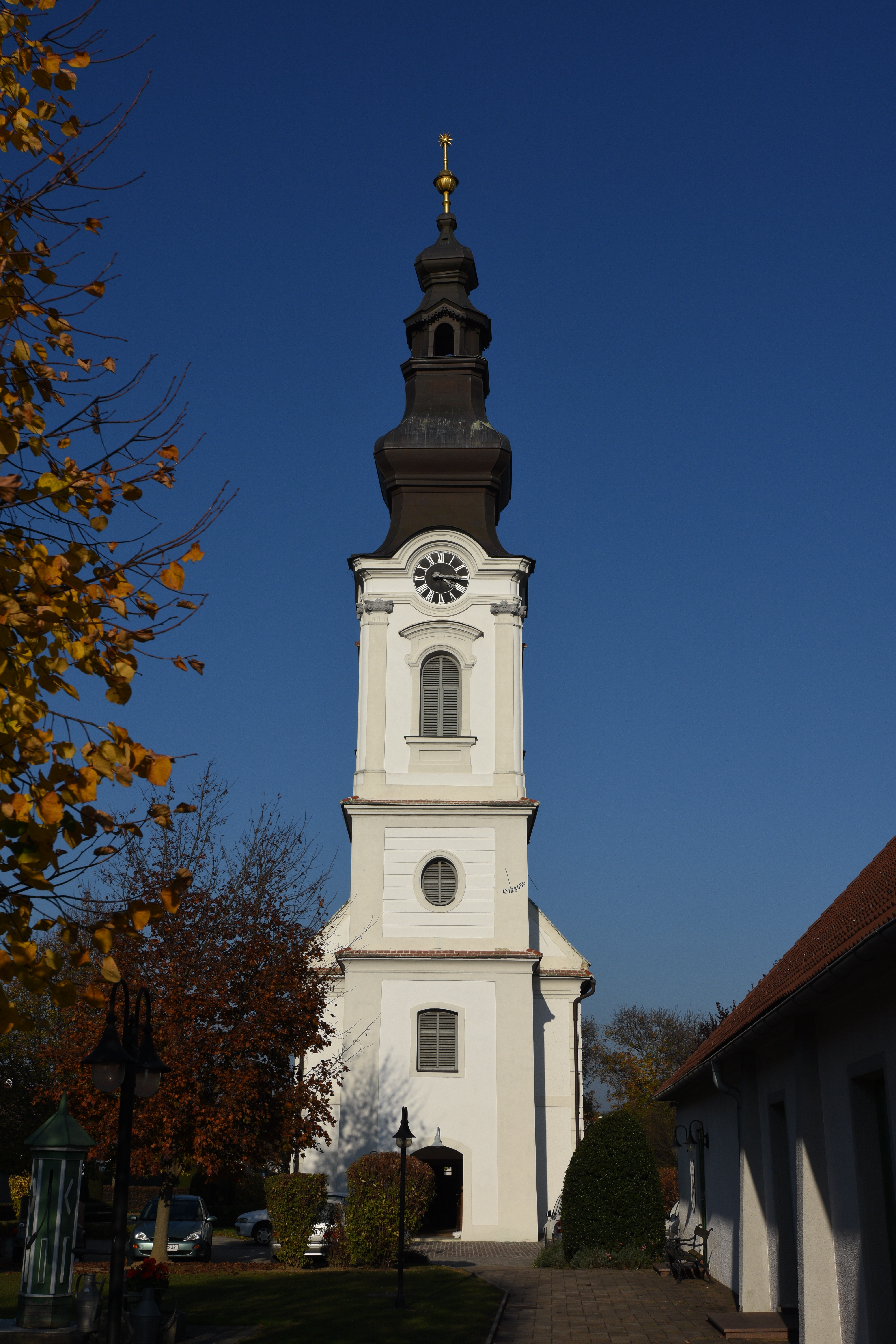 Reformierte Pfarrkirche Oberwart